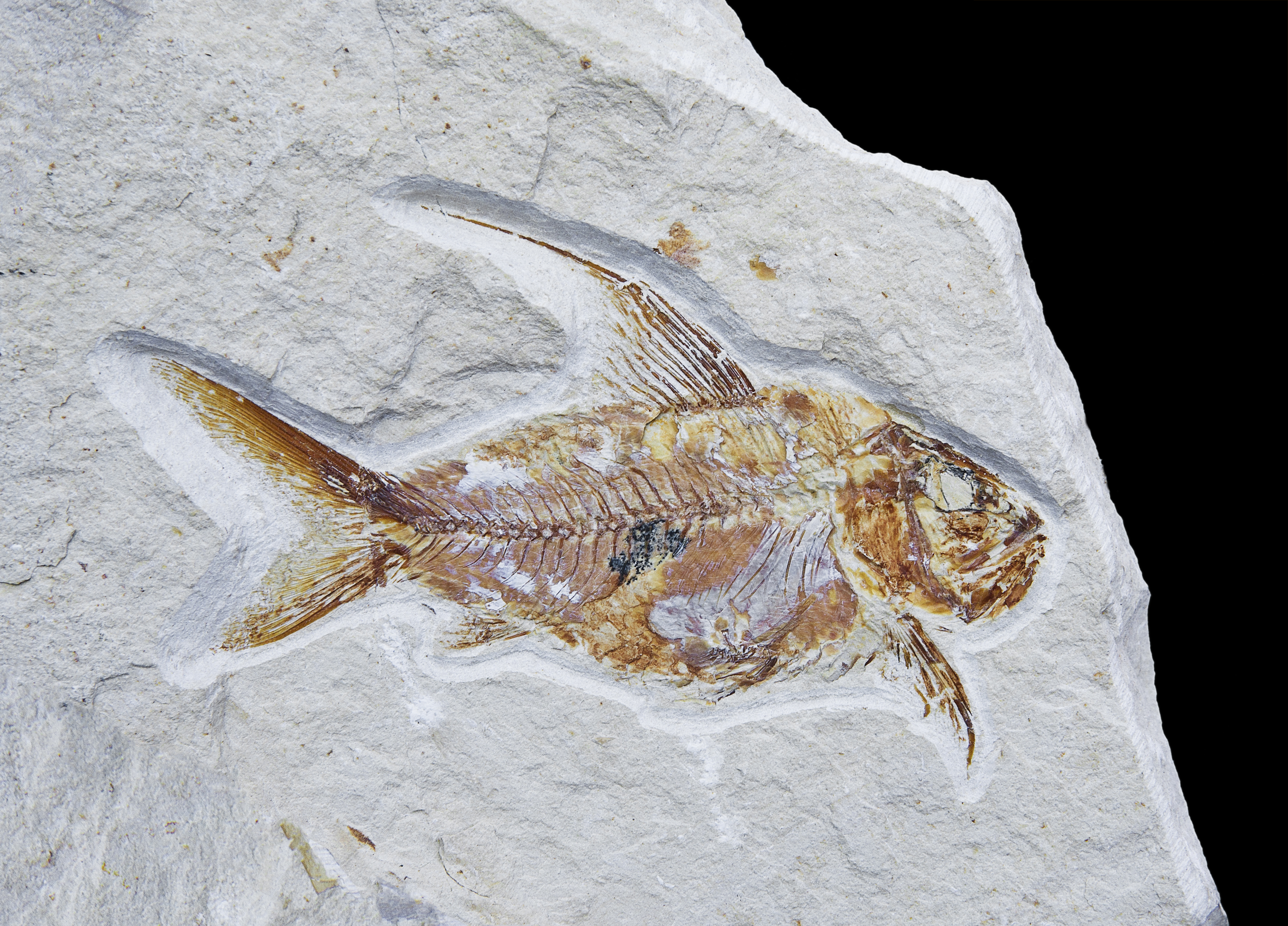 Nematonotus longispinus Locality : Hadjoula Libanum Stage : Lower Cenomanian (99 million years ago) Size : 13 cm